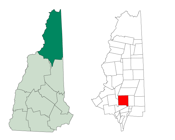 Map of a municipality in Coos County, New Hampshire